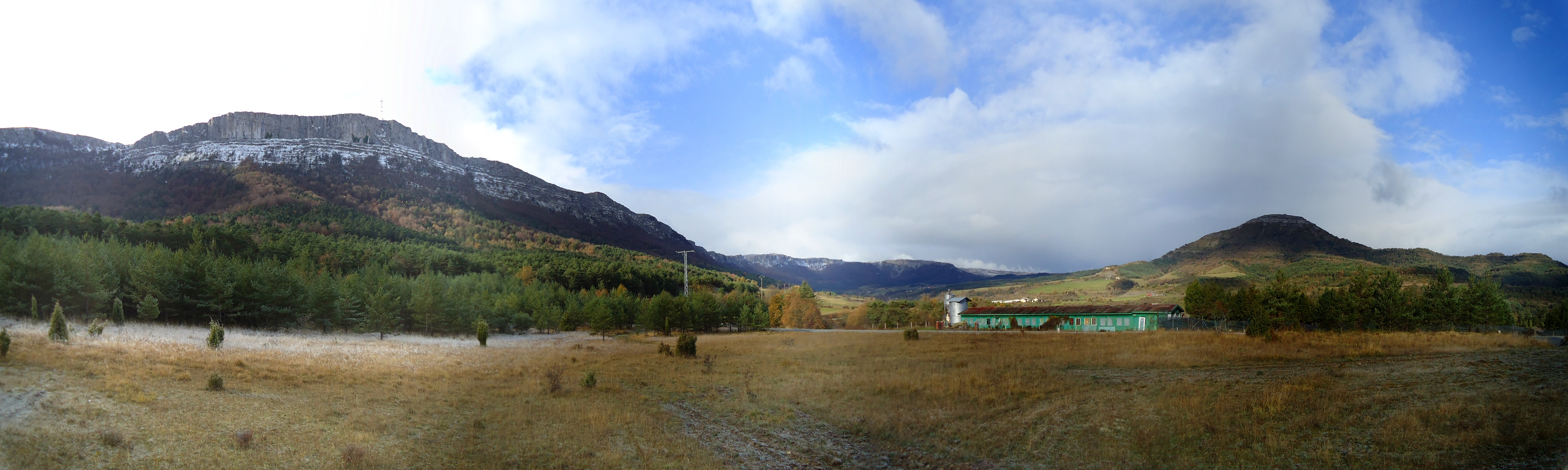 Arkamo mountain range from Jokano (Araba, Basque Country, Spain)